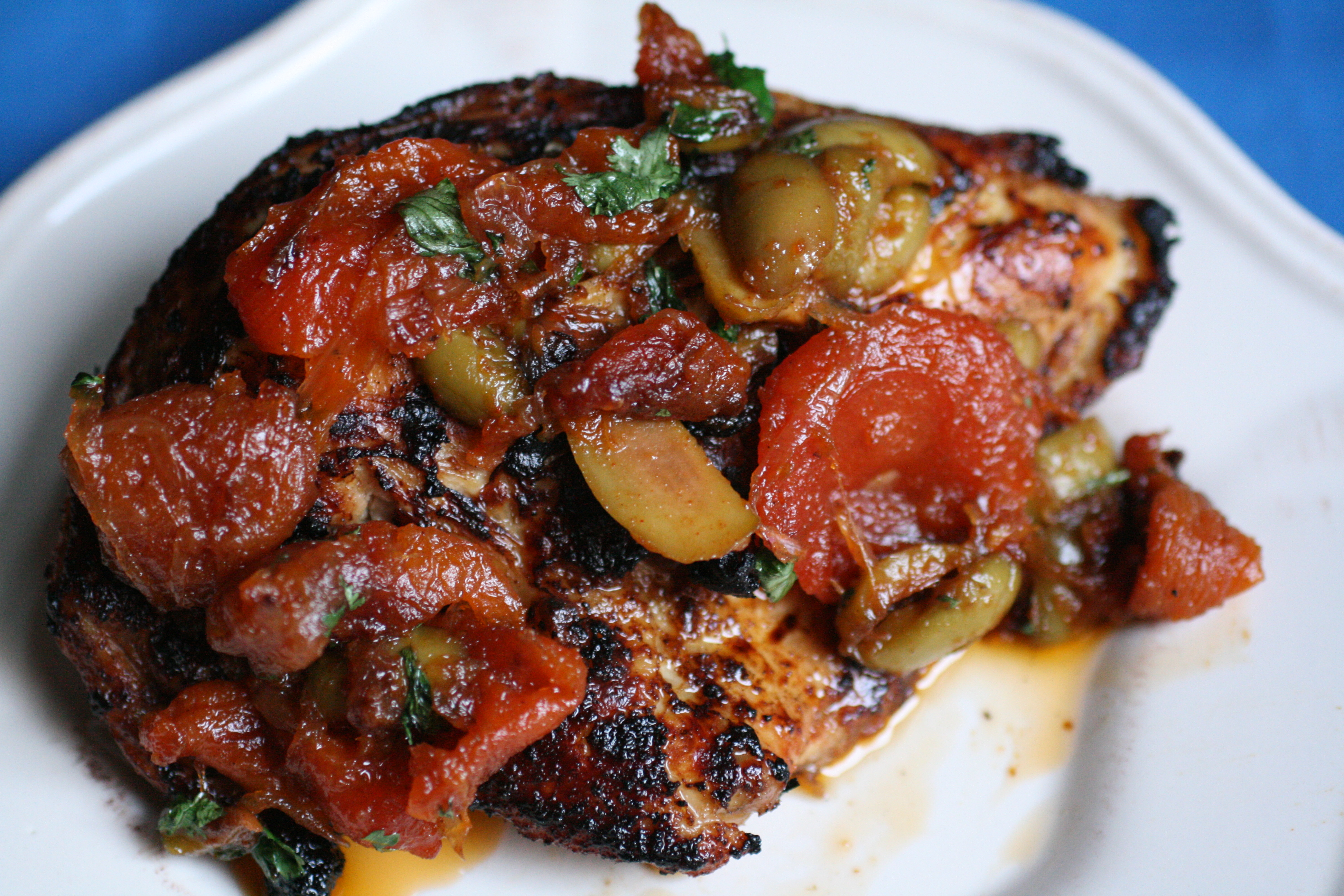 Read about it at .